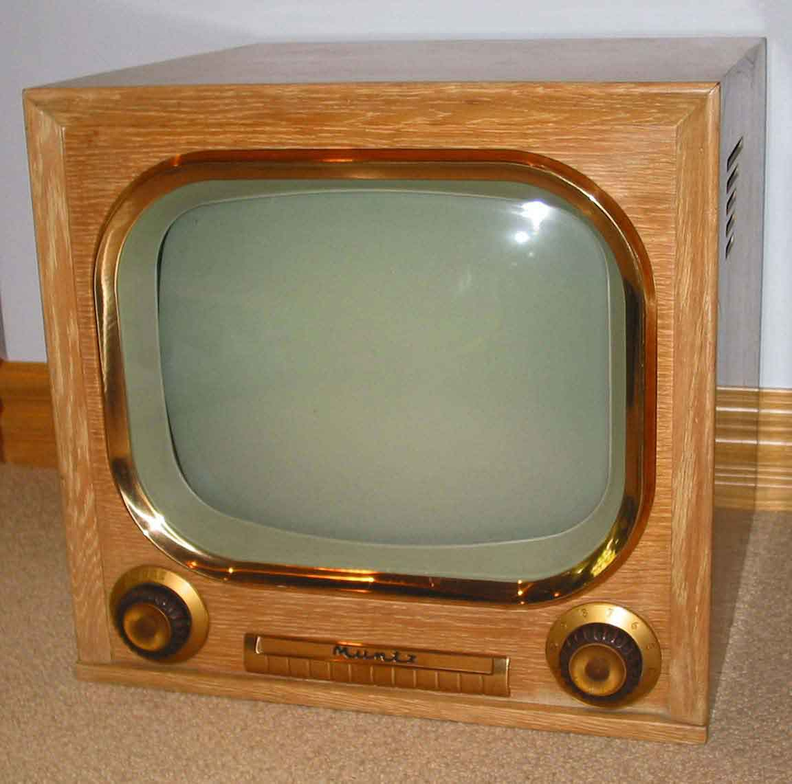 Image of a Muntz model 17A3A (17-inch) TV from 1951.